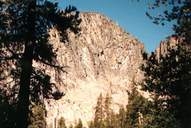 Rock formations in Gearhart Mountain Wilderness, Fremont–Winema National Forest, Oregon, USA.